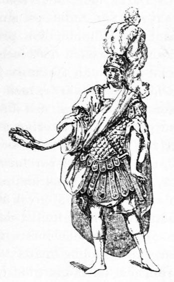 Jaques de Monvel, French actor and Swedish theatre director, as Memnon